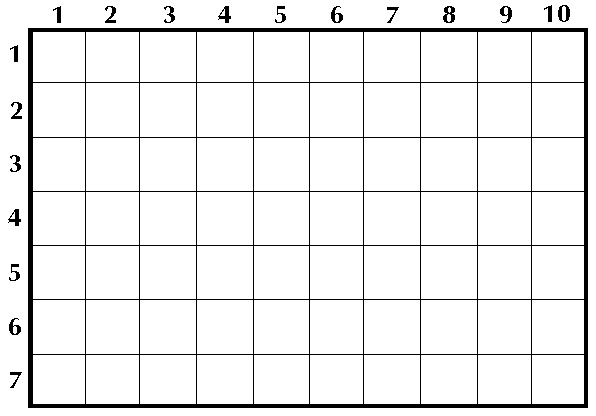 Crossword, so called Italian (black cases undefined)